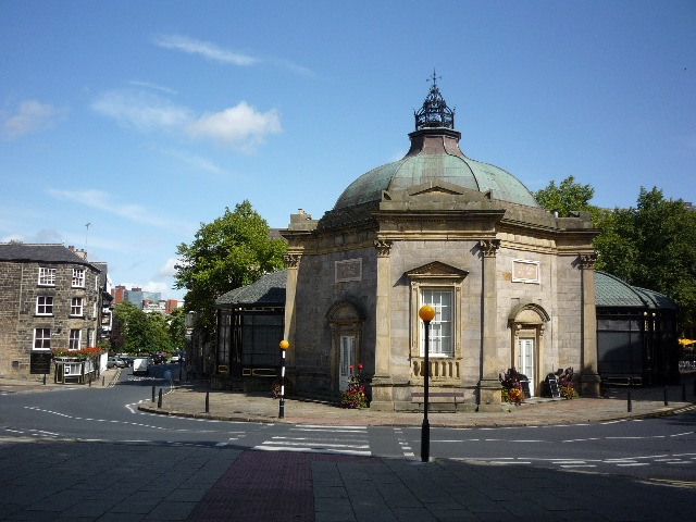 Pump Room museum The Pump Room museum in Harrogate, with Harrogate's motto displayed on the wall - 'Arx Celebris Fontibus'.